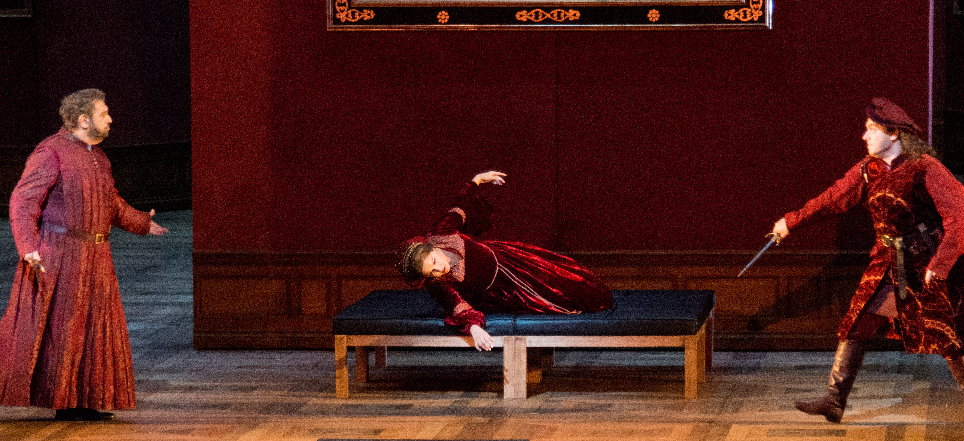 Il trovatore, Plácido Domingo, Anna Netrebko and Franceso Meli, Salzburg Festival 2014